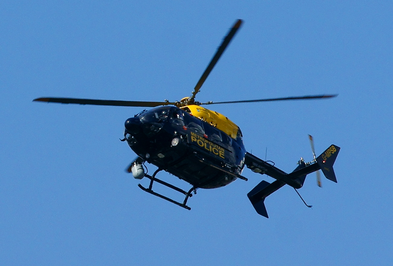 G-MPSB. A regular sight in the skies over Croydon.